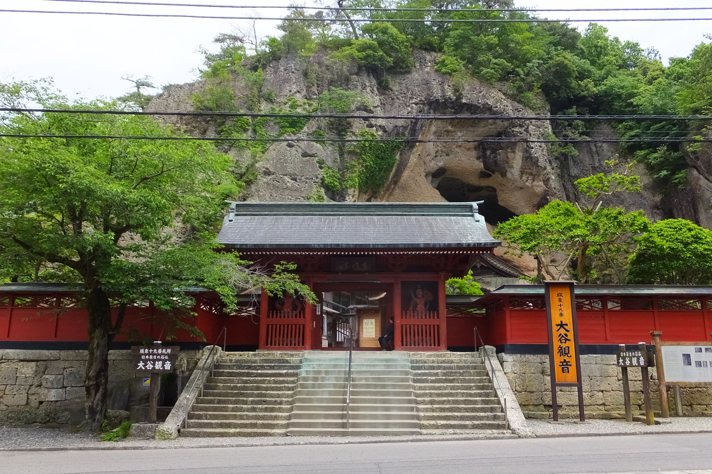 Niōmon gate of Ōya-ji temple in Utsunomiya, Tochigi Prefecture